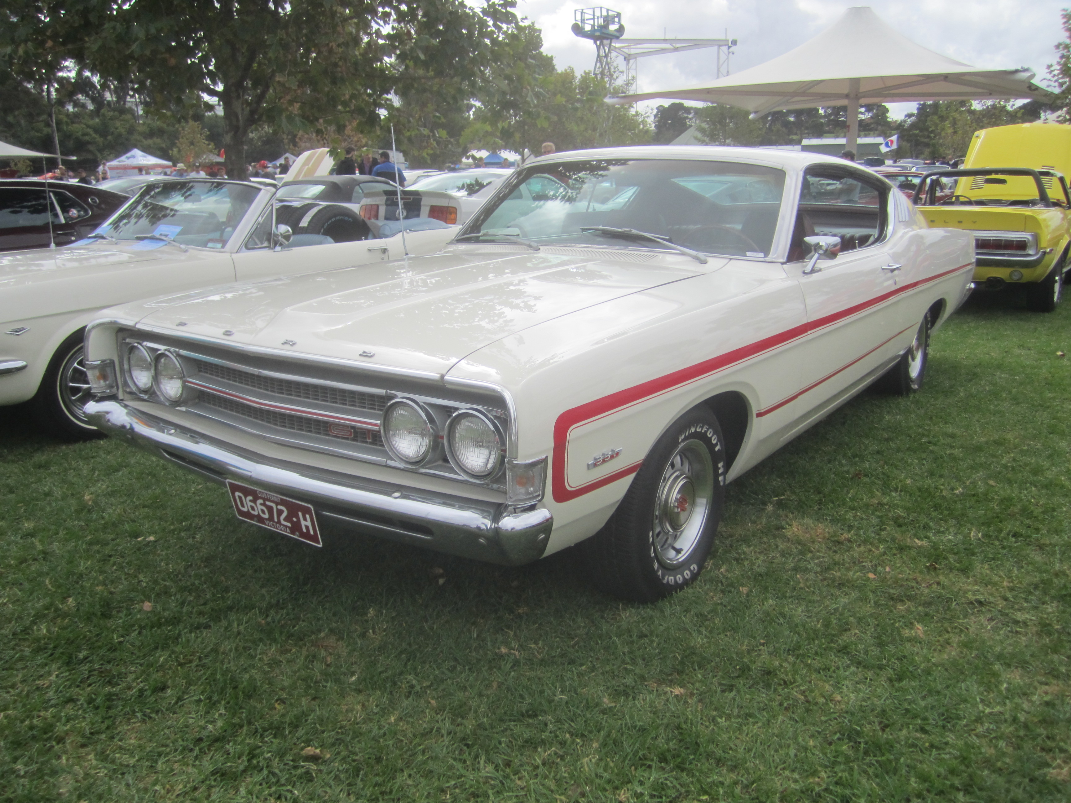 The Torino was built from 1968-76, the 1st generation, 1968-69 was an upmarket version of the Fairlane. The standard Torino was available as a 2 door hardtop, 4 door Sedan and Squire wagon, the Torino GT was available as 2 door hardtop, 2 door Sports Roof and Convertible.1969 saw a minor facelift to the grille and taillights The GT was available with either 302 or 351 Windsor or 390FE V8s and the Cobra Jet option got the 428 with or without Ram Air. The top engine was the 428 Super Cobra Jet designed for drag racing